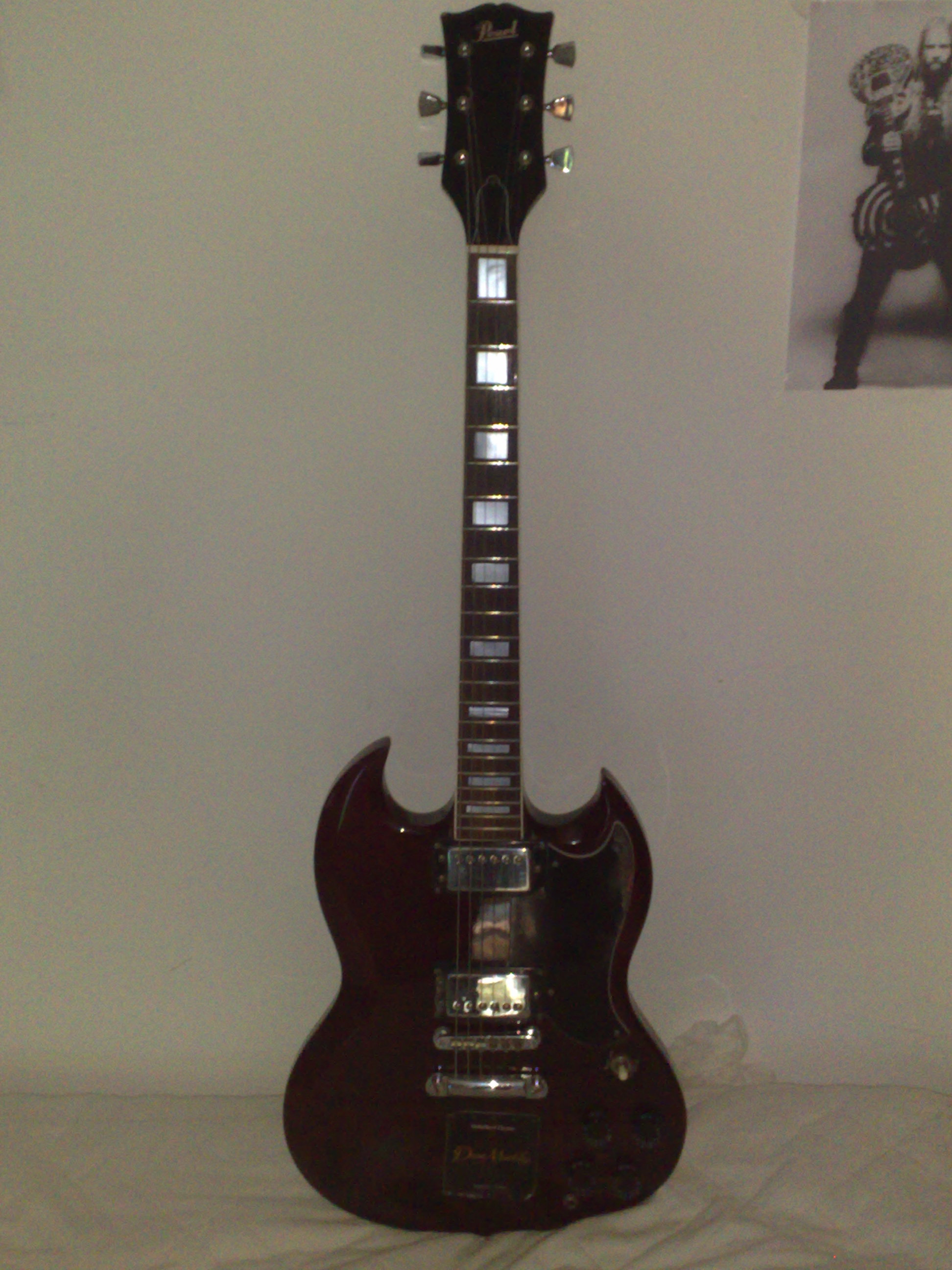 an electric guitar